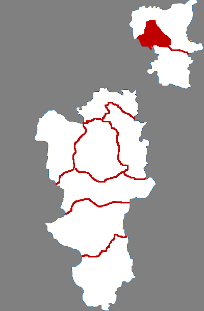 Location of Dachang Hui Autonomous County in Langfang City, China